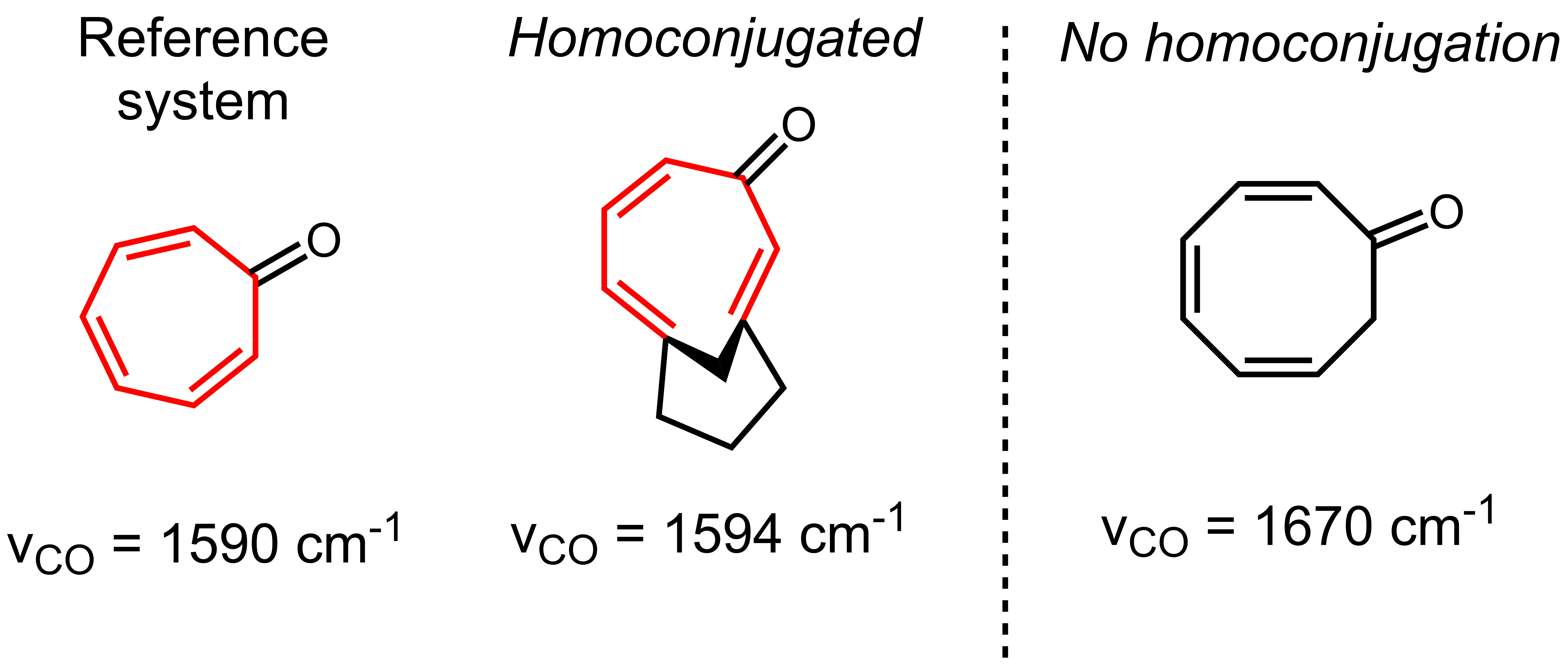 IR frequencies demonstrate homoconjugation or lack thereof.